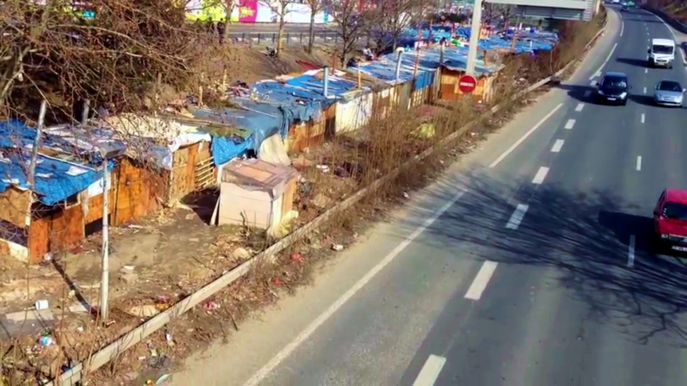 Roma shantytown in St-Denis, France, near Paris